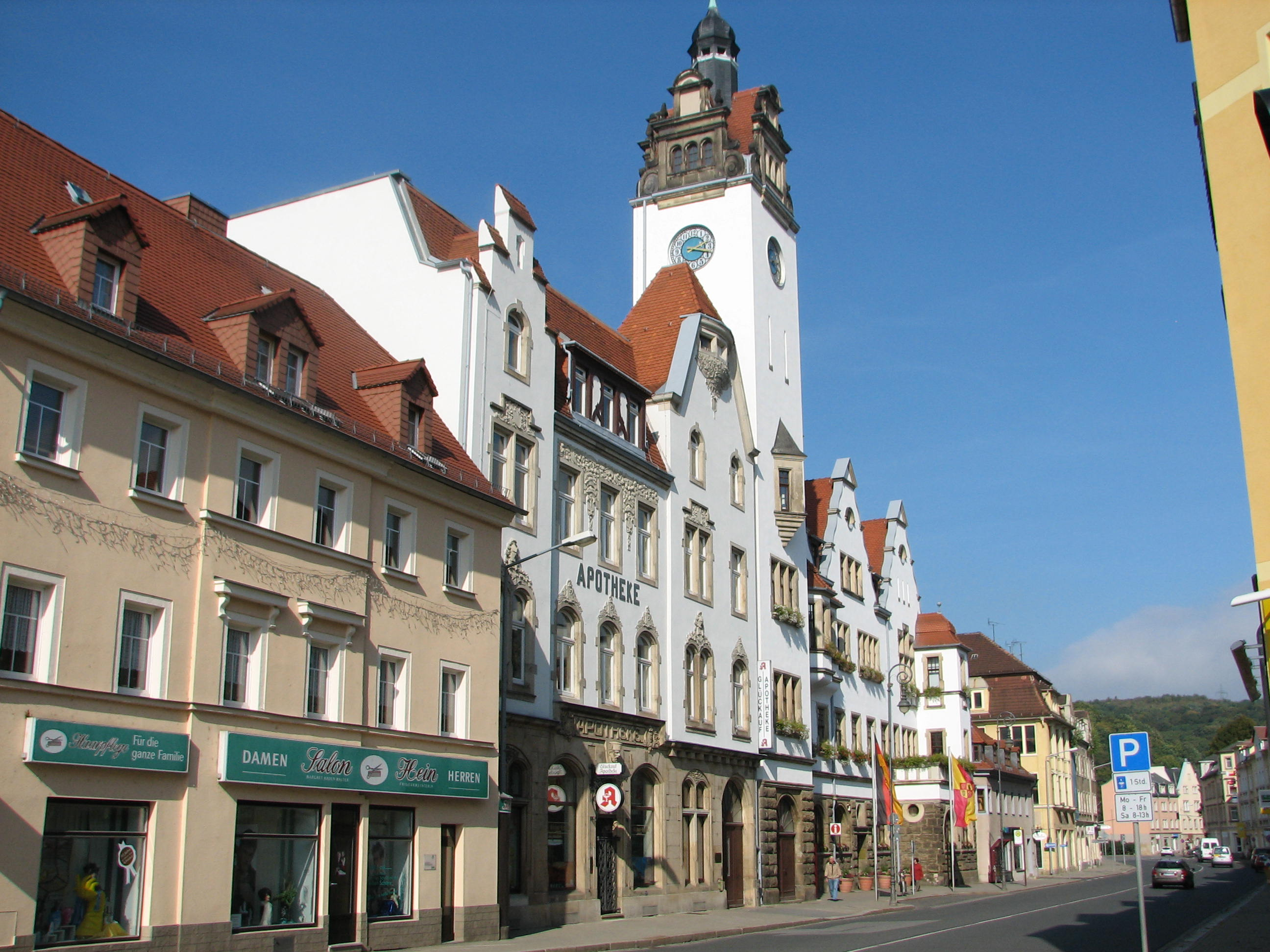 The townhall in Freital-Potschappel